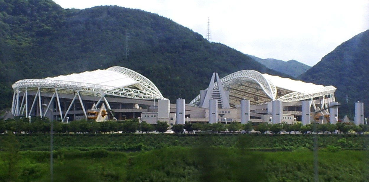 Daegu Stadium, Daegu , South Korea